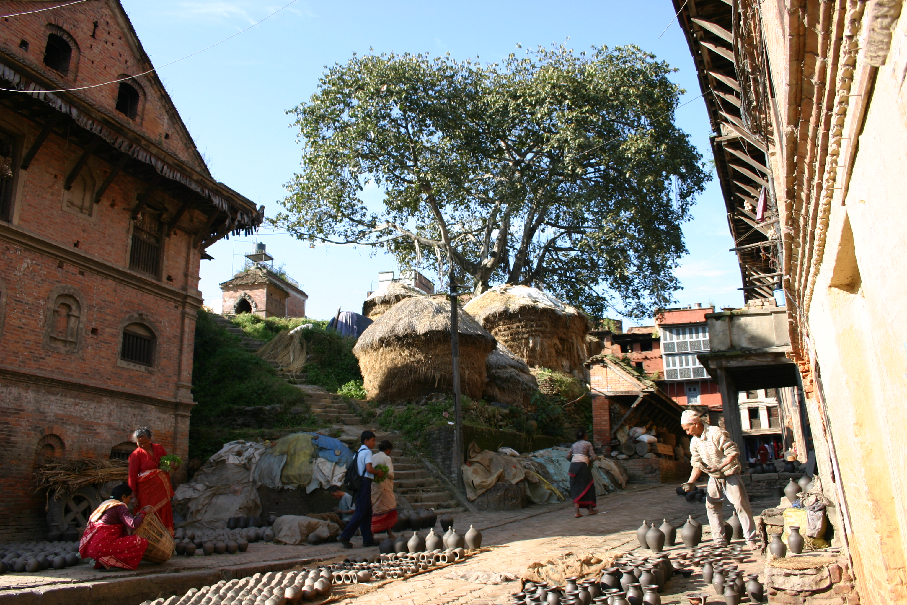 Pottery graft in Bhaktapur (Nepal). The building on the left is on Pottery Square.